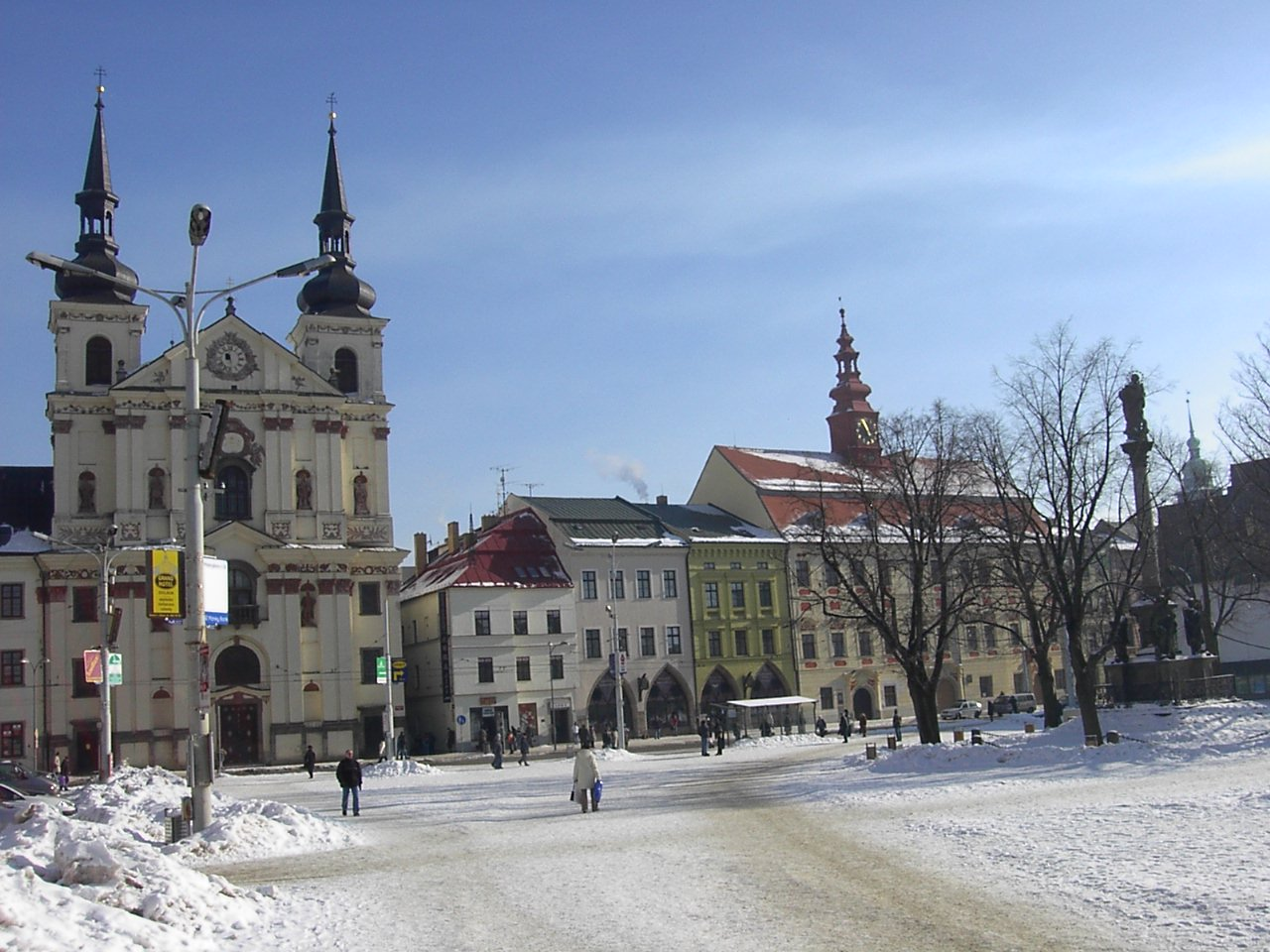 Masaryk Square in Jihlava, Czech Republic. Eastern side of the square withh St Ignatius church in the left and city hall in the right.